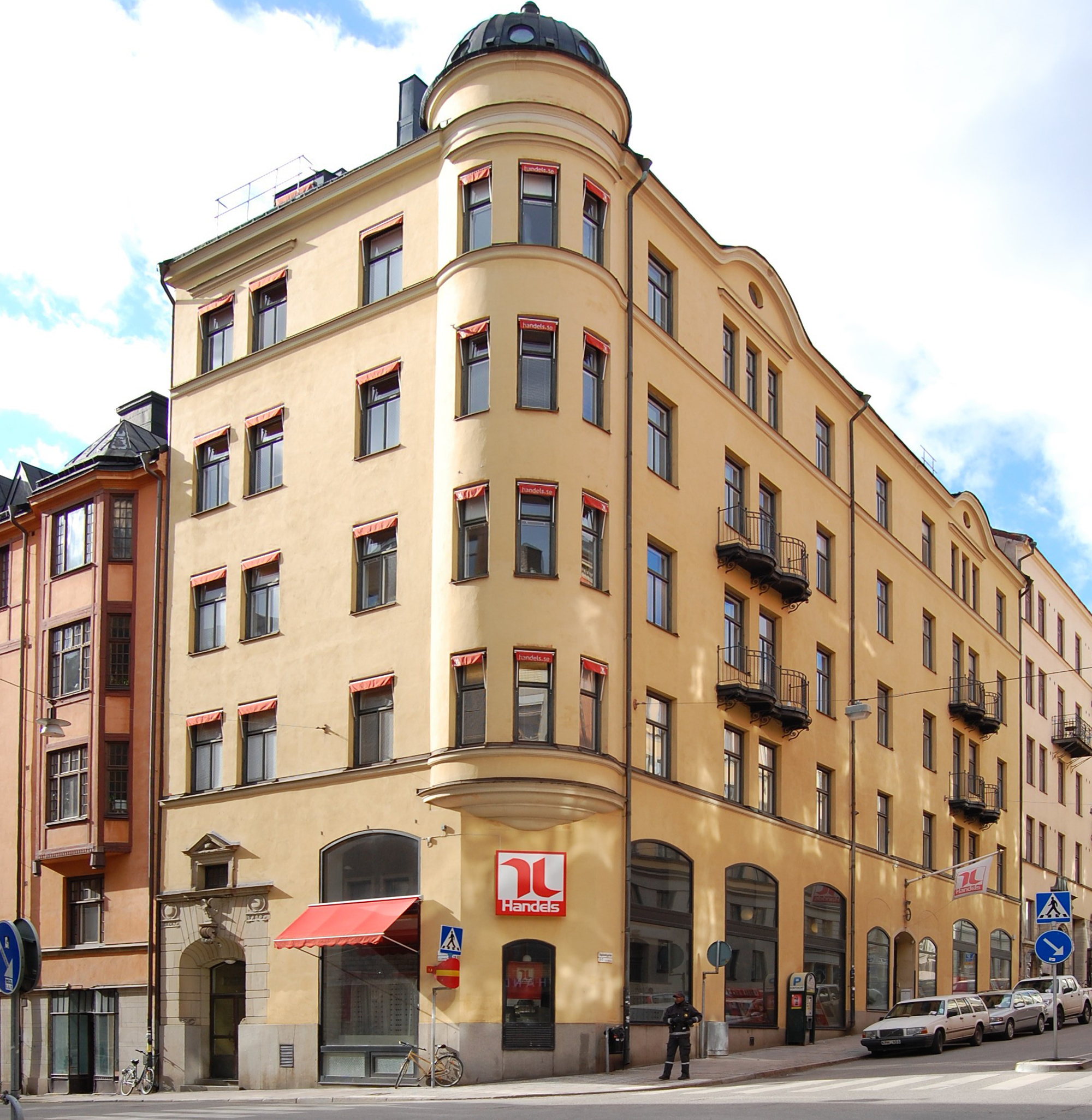 Swedish Commercial Employees' Union offices in Stockholm